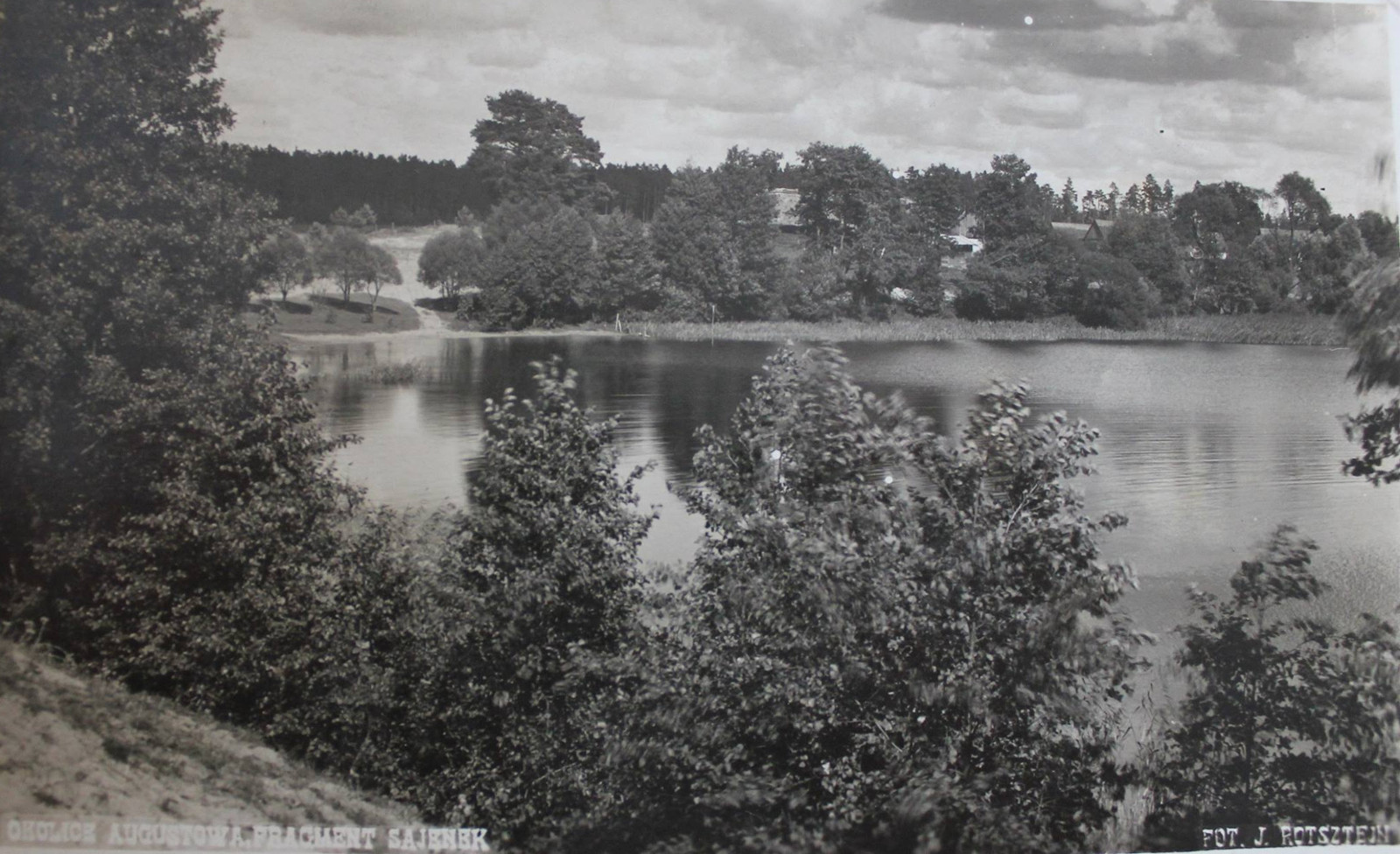 Lake in Sajenek in Augustów, Poland.